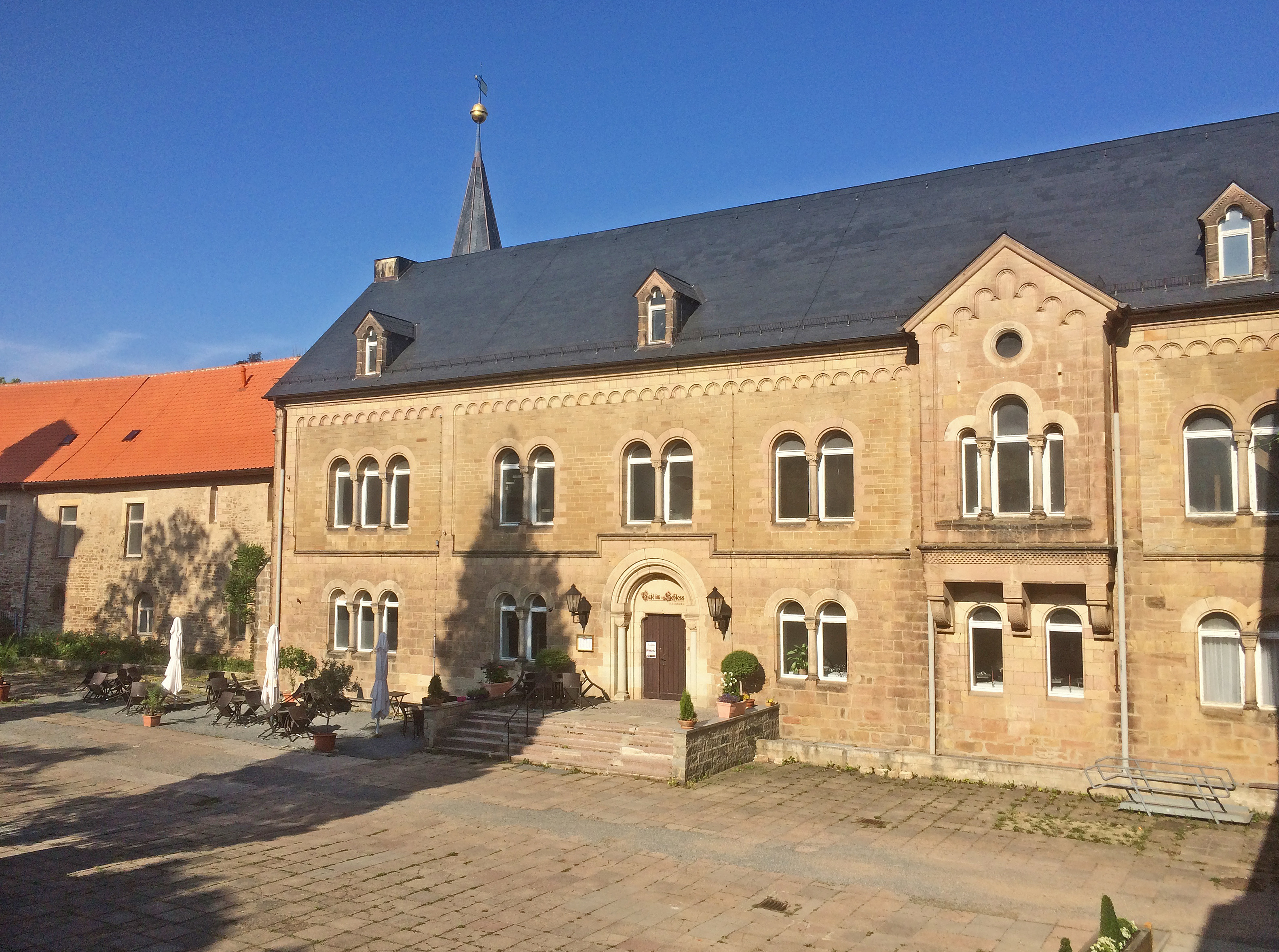 The castle of Ilsenburg Abbey, seen from East.